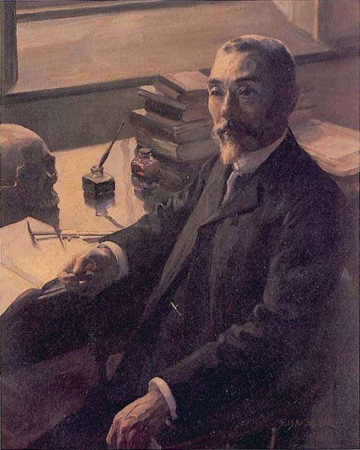 Portrait of Koganei Yoshikiyo, by Wada Eisaku, Tokyo University